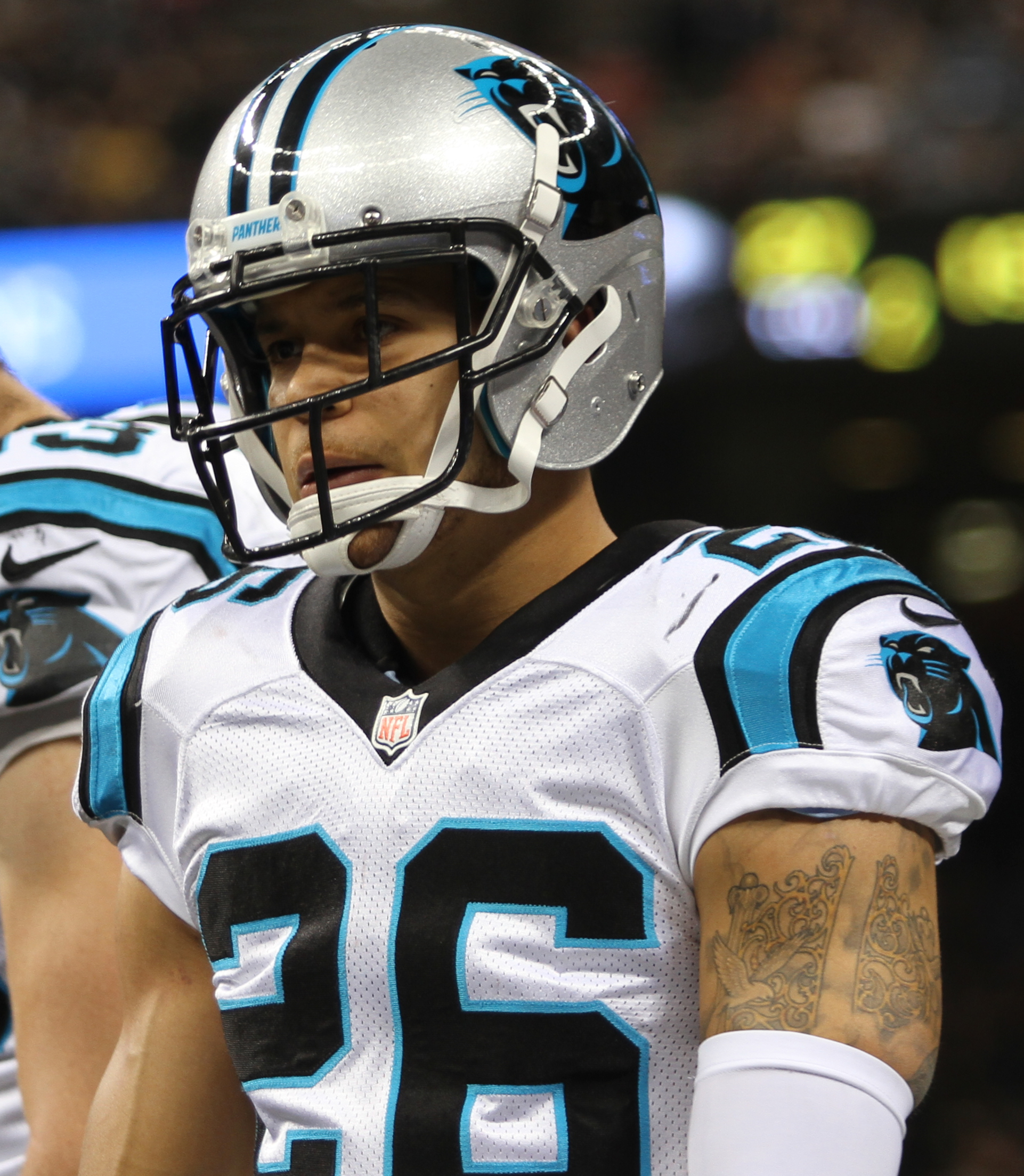 New Orleans Saints vs Carolina Panthers, December 6, 2015, Tammy Anthony Baker, Photographer